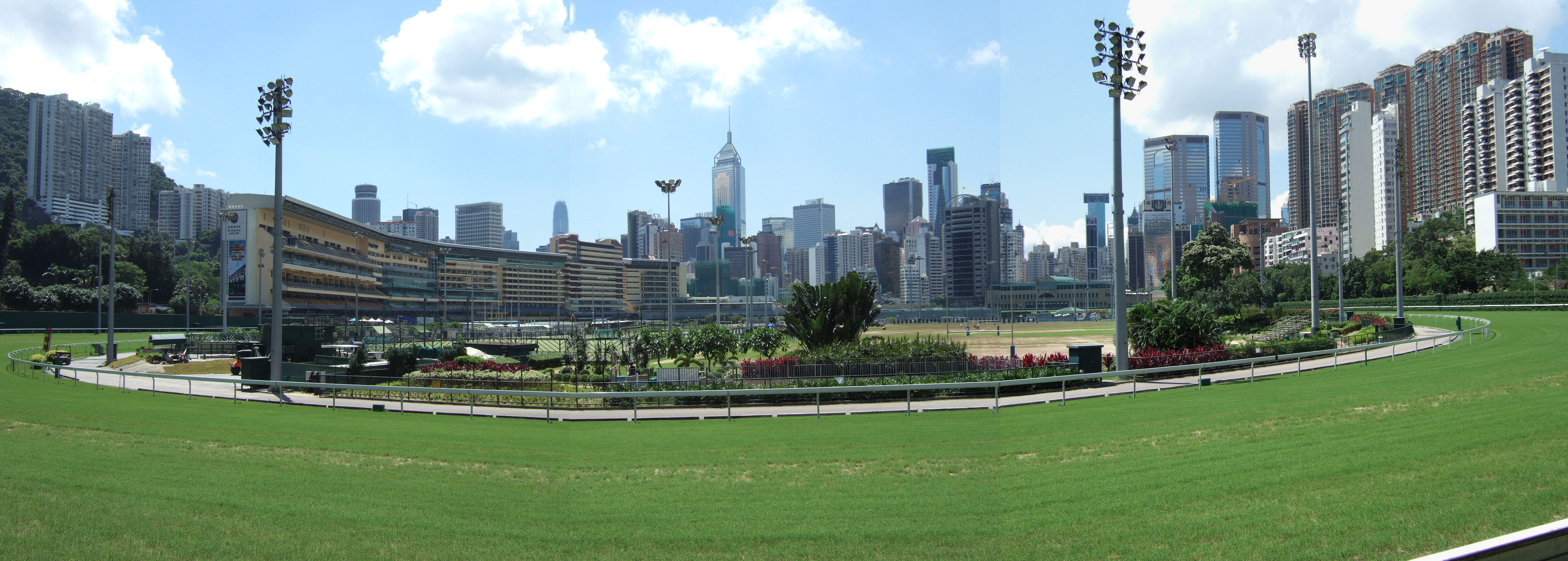 Panorama of the Happy Valley Racecourse